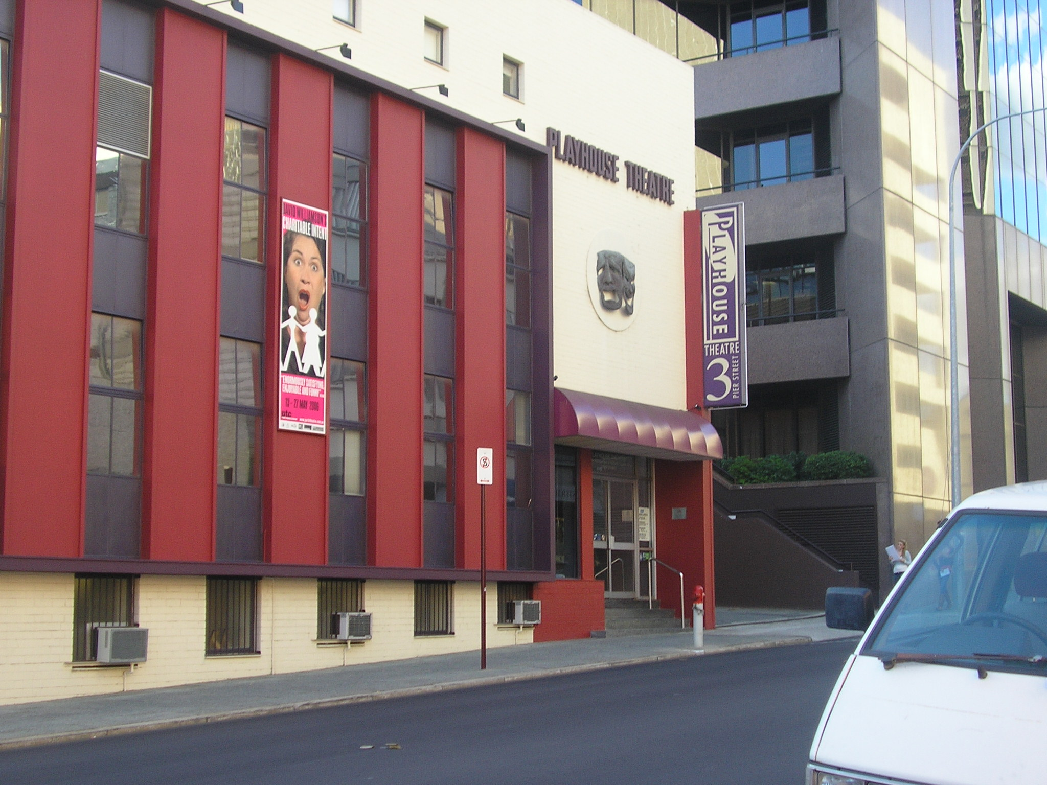 the former Playhouse Theatre, Perth CBD, Western Australia. Taken in May 2006 by Ali_K.